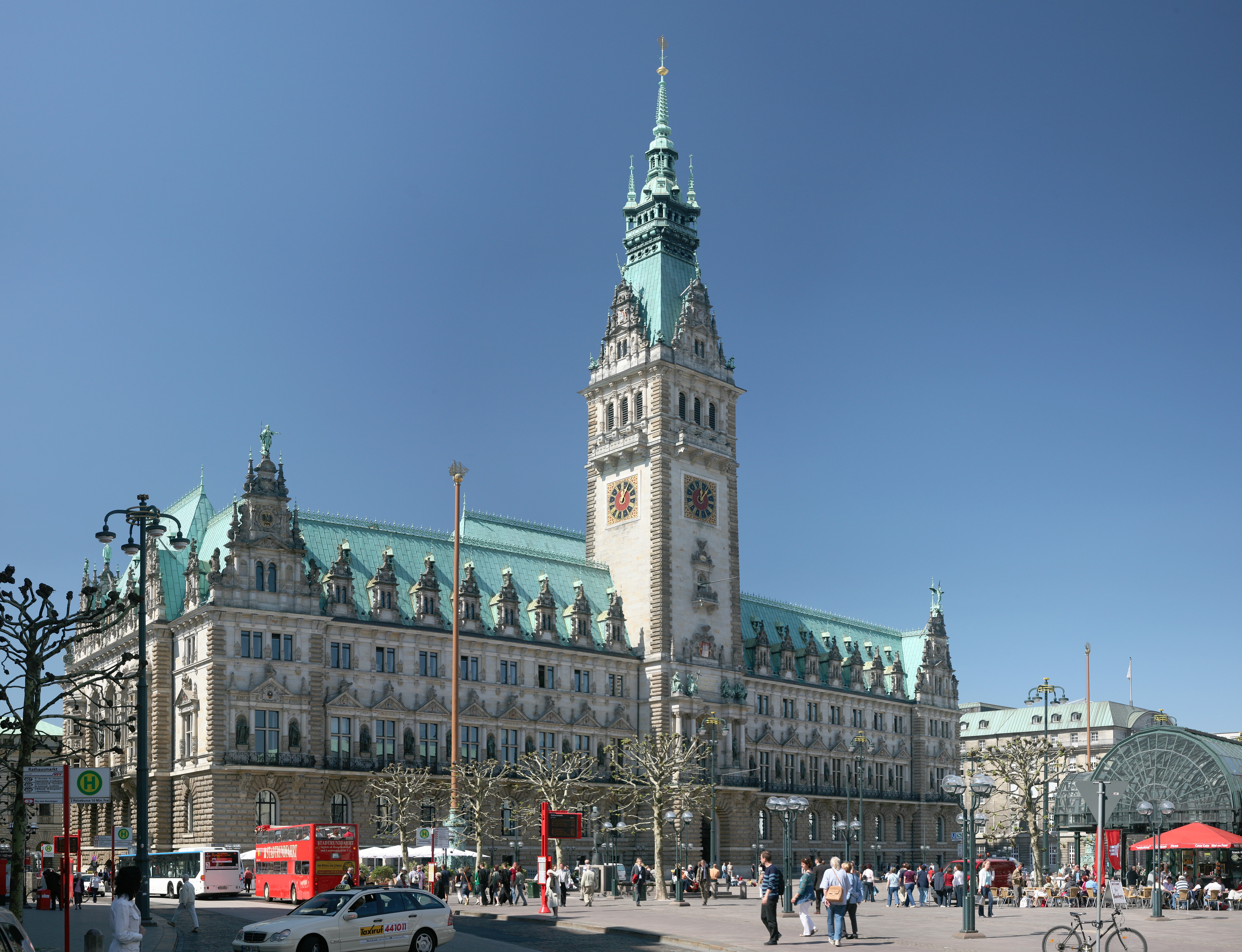 Hamburg city hall, Germany This is a photograph of an architectural monument. , 12254 For similar images, see Hamburger Rathaus.